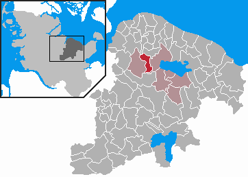 This map shows the area of the Gemeinde (municipality) Schlesen in the Kreis (district) Plön, Schleswig-Holstein, Germany.